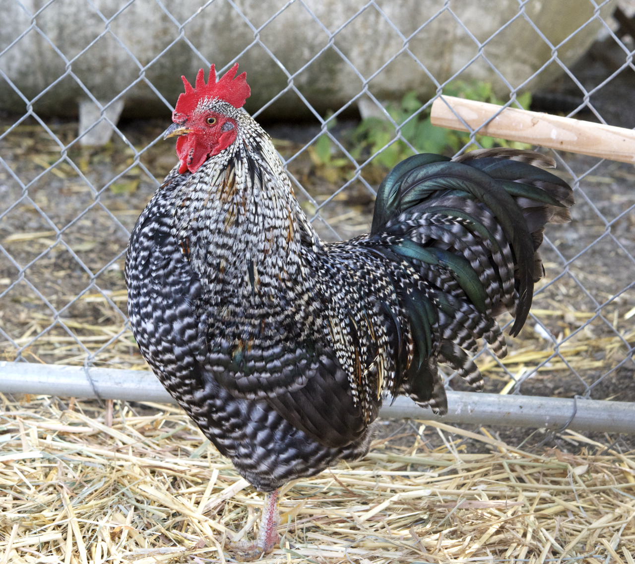 A Barred Plymouth Rock rooster.